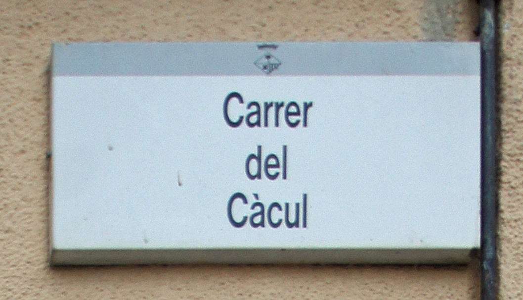 Calonge, Catalonia: Street name Carrer del Càcul